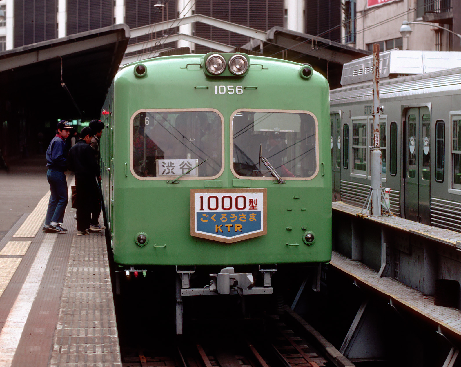 Keio Teito Electric Railway 1000 series EMU on the last run at Kichijoji station.